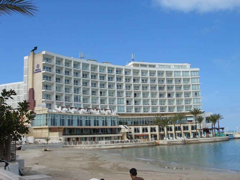 Helnan Palestine hotel, Montazah, Alexandria